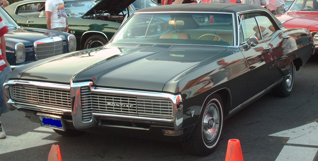 1968 Pontiac Grande Parisienne Sport Sedan photographed in Montreal, Quebec, Canada at Gibeau Orange Julep.